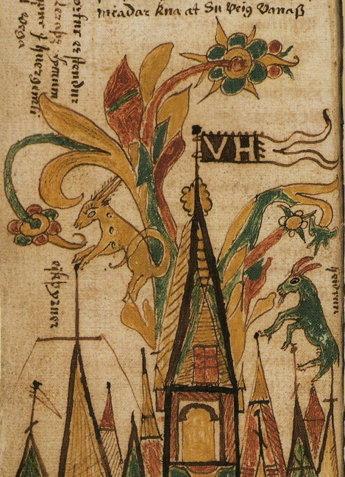 The stag Eikþyrnir and the goat Heiðrún on top of Valhalla. From the 17th century Icelandic manuscript AM 738 4to, now in the care of the Árni Magnússon Institute in Iceland.